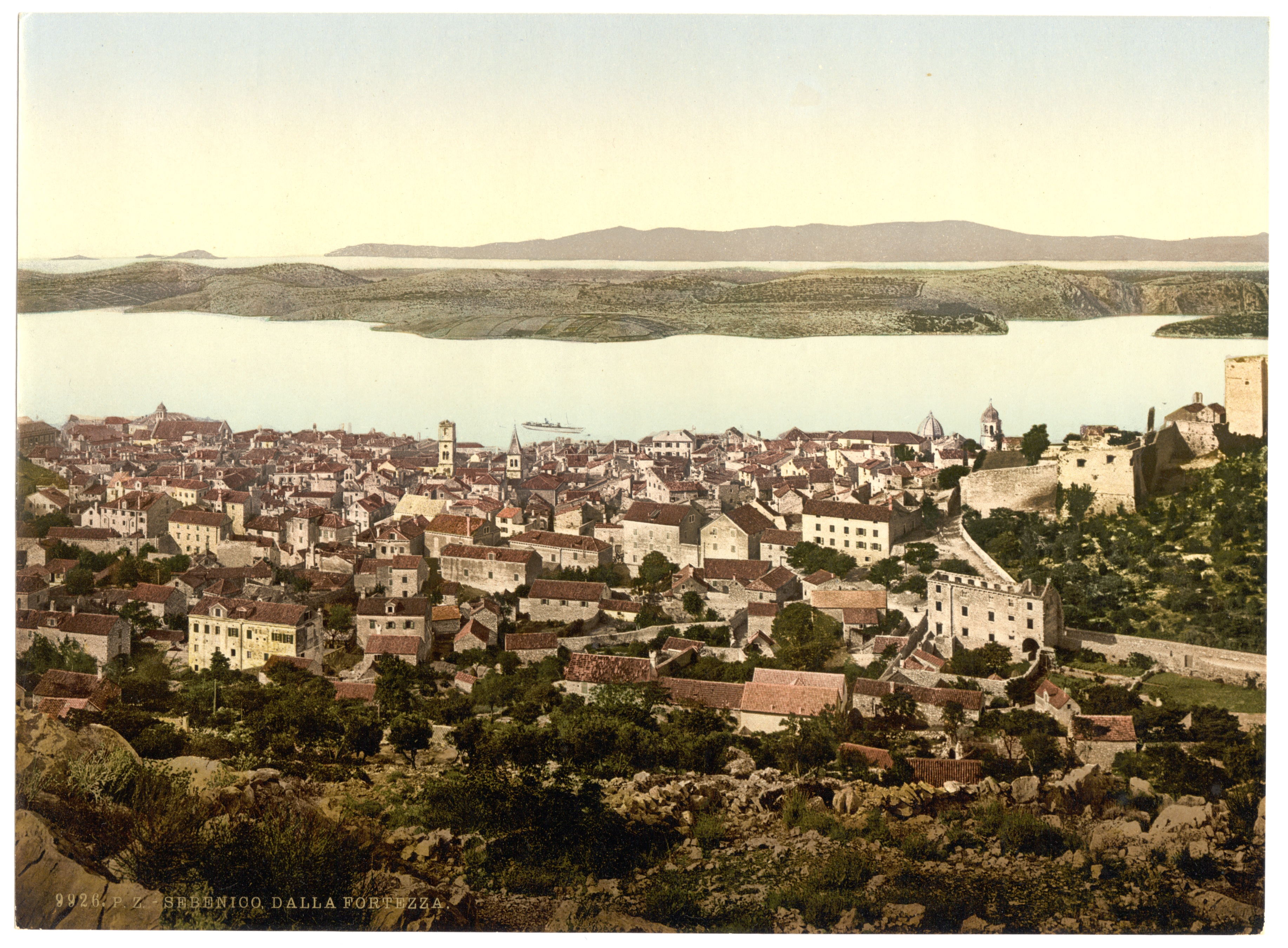 Print no. "9926".; Forms part of: Views of the Austro-Hungarian Empire in the Photochrom print collection.; Title from the Detroit Publishing Co., Catalogue J-foreign section, Detroit, Mich. : Detroit Publishing Company, 1905.